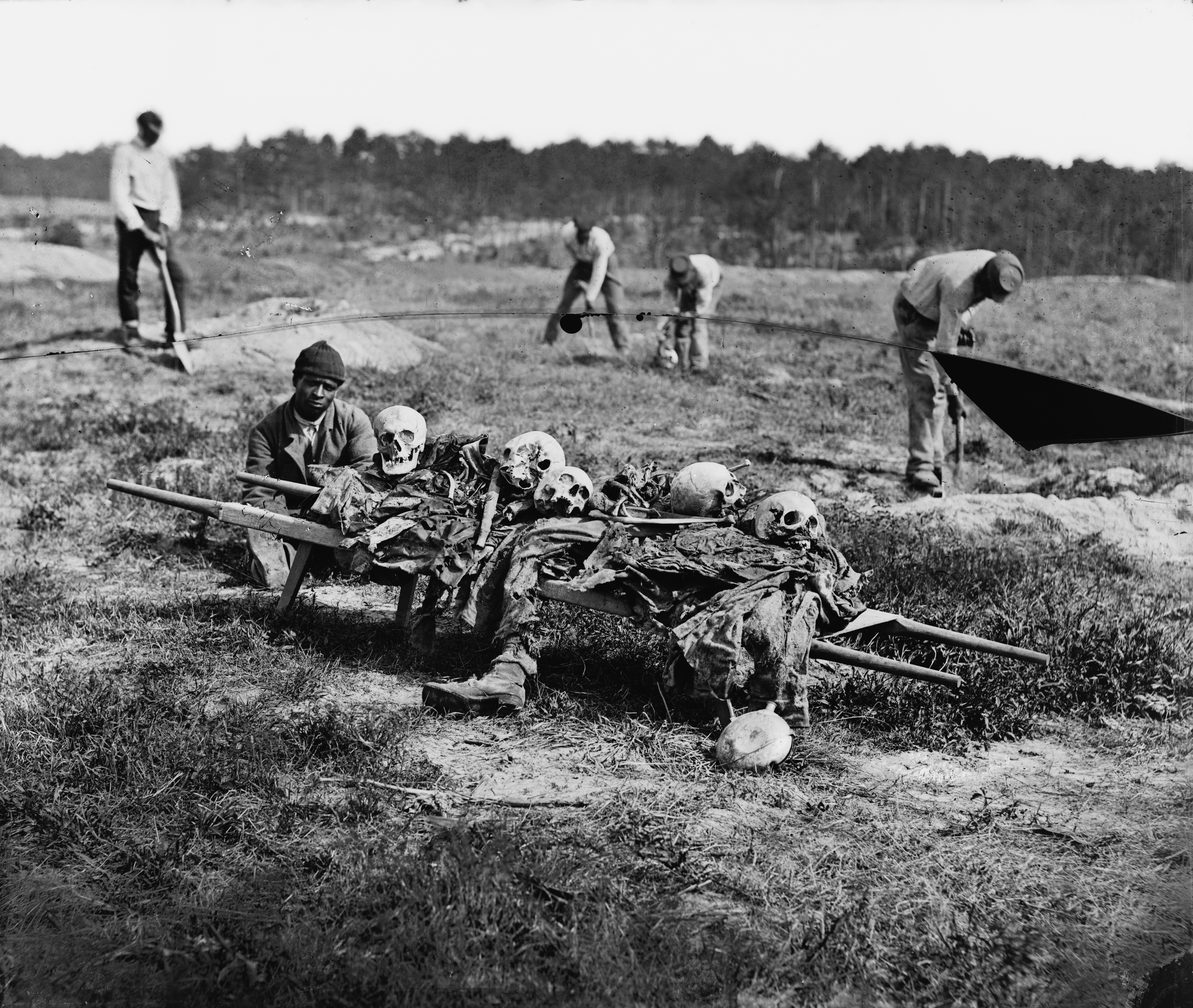 (Cropped and color-corrected by Hal Jespersen. From Library of Congress: TITLE: A burial party on the battle-field of Cold Harbor / negative by J. Reekie ; positive by A. Gardner. CALL NUMBER: Illus. in E468.7 .G2 (Case Y) [P&P] REPRODUCTION NUMBER: )